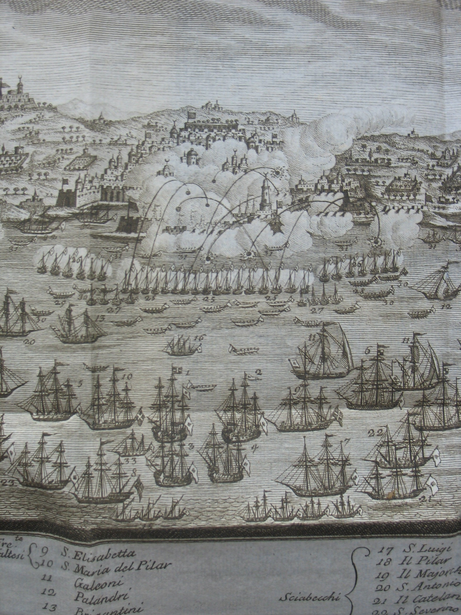 Excerpt of view of bombardment, under General Antonio Barcello